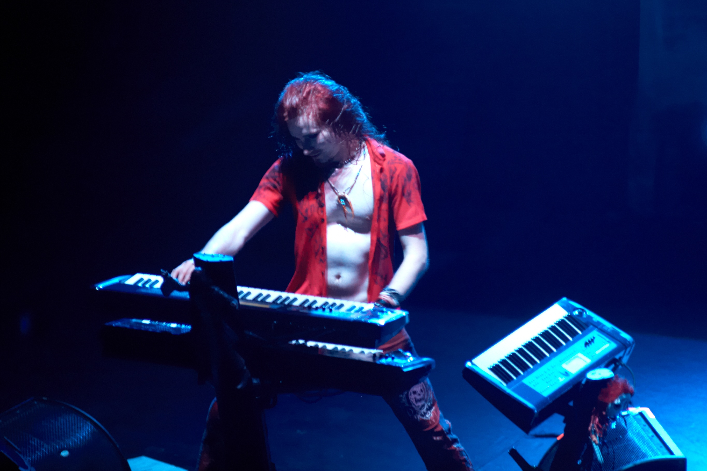 Tuomas Lauri Johannes Holopainen, Nightwish concert at The Palais, Melbourne.